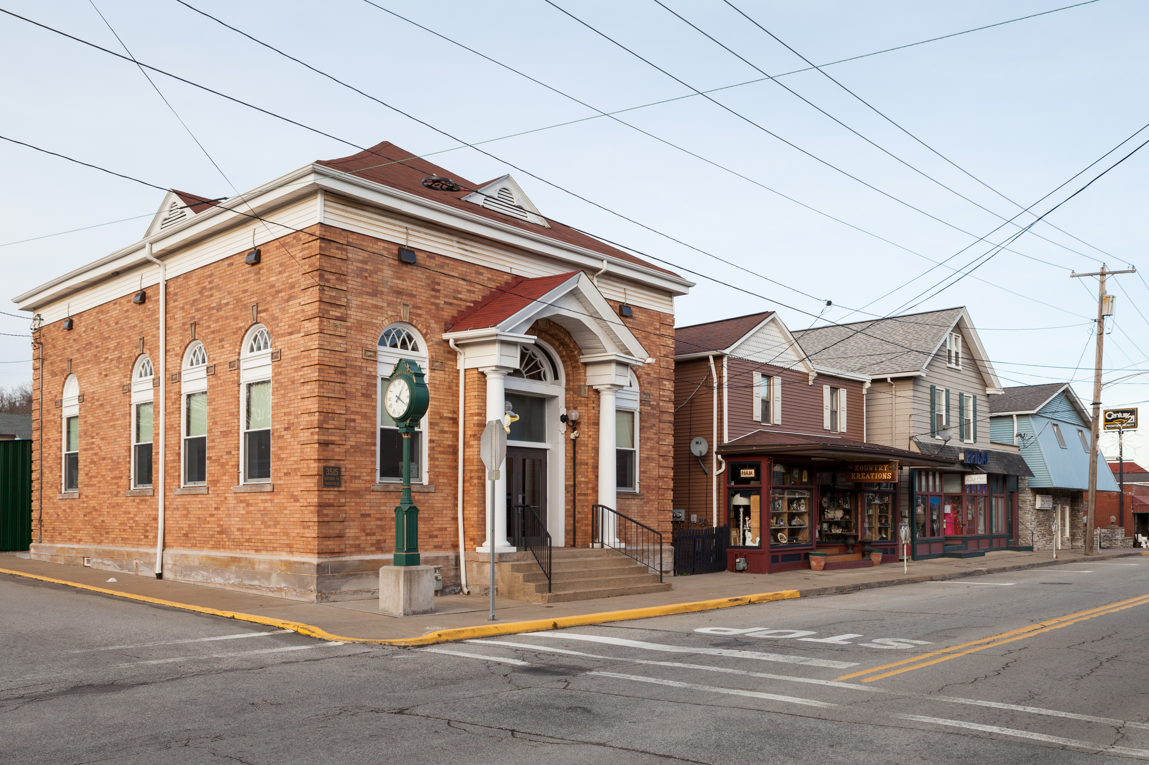 Finleyville, Pennsylvania borough building at the intersection of Washington and Extension Avenues. Looking northeast.